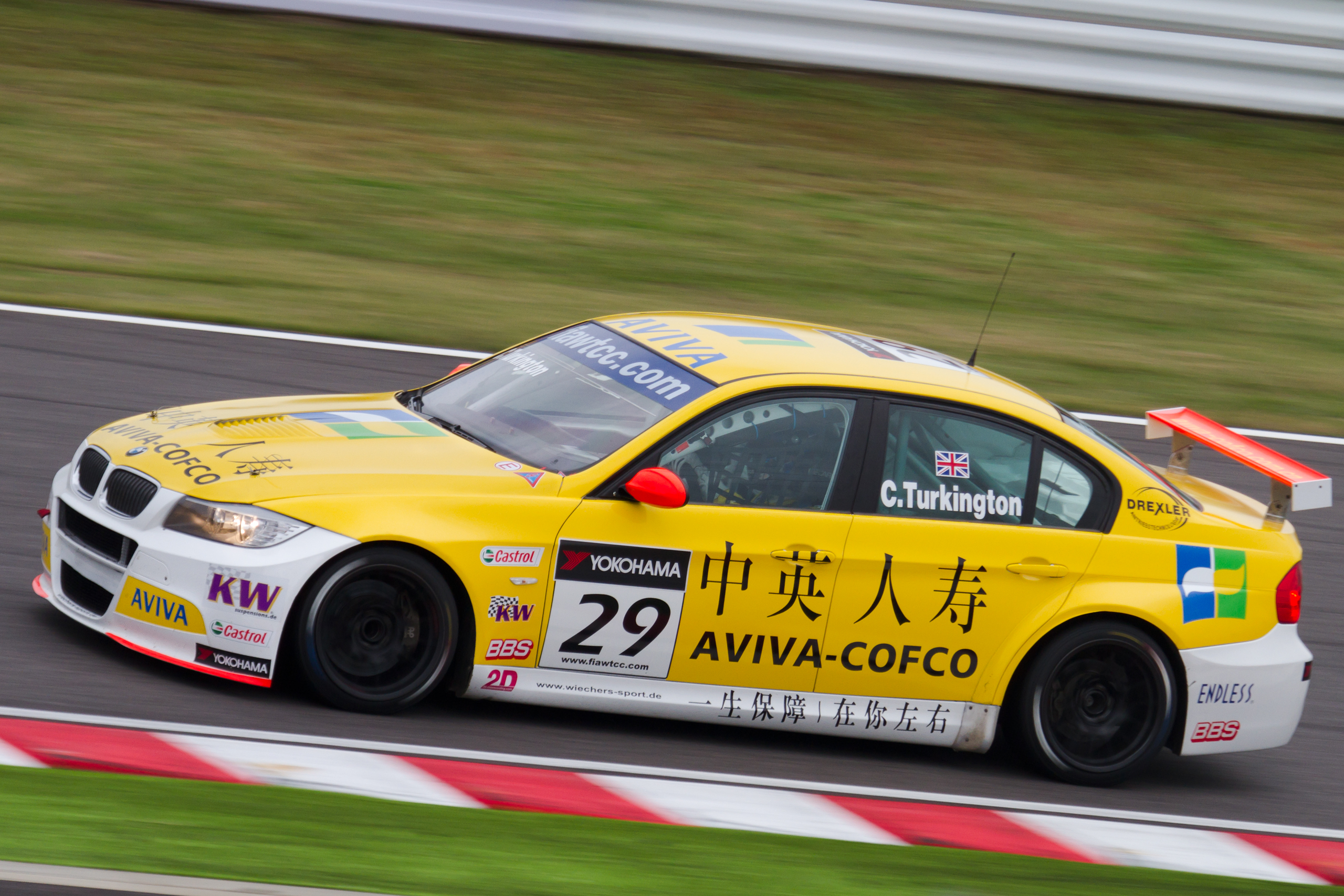 World Touring Car Championship 2011 Race of Japan: Colin Turkington (Wiechers-Sport) during the qualify session on Saturday.